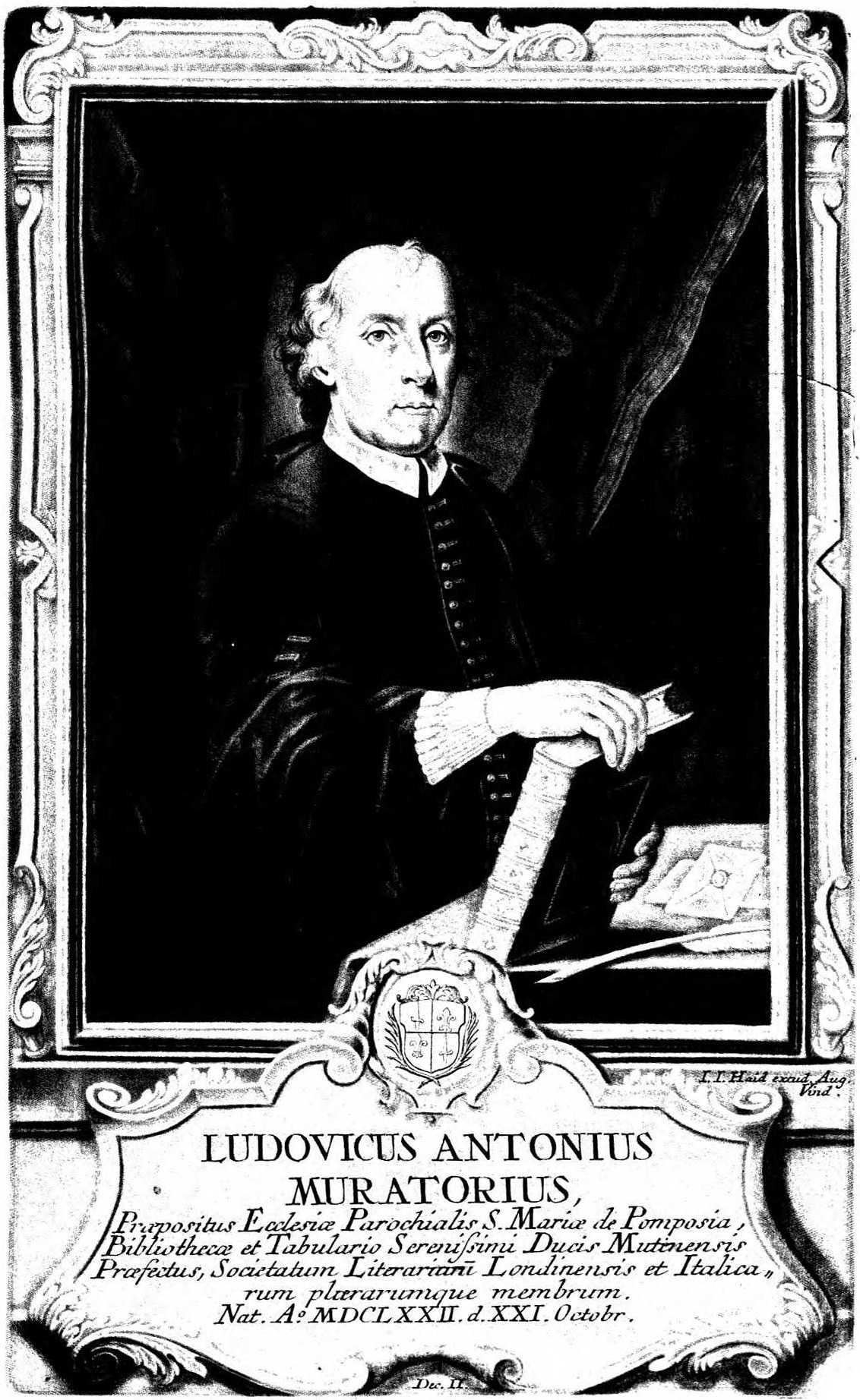 Portrait of Lodovico Antonio Muratori. In: Bilder-sal heutiges Tages lebender und durch Gelahrheit berühmter Schrifft-steller. Augsburg 1742